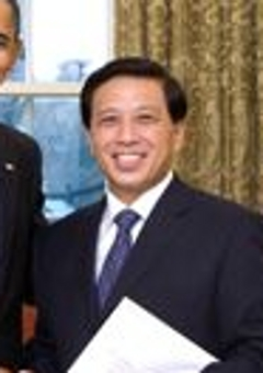 President Barack Obama welcomes Ambassador Zhang Yesui of the People’s Republic of China to the White House on March 29, 2010, during the credentials ceremony for newly appointed ambassadors to Washington, D.C.